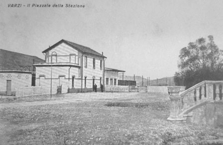 Varzi railway station - 3